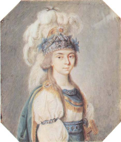 Praskovia Kovalyova-Zhemchugova in a scenic costume for Les mariages samnites by André Ernest Modeste Grétry